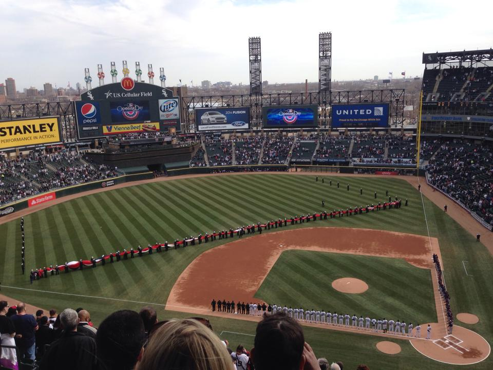 White Sox opening day 2014 anthem